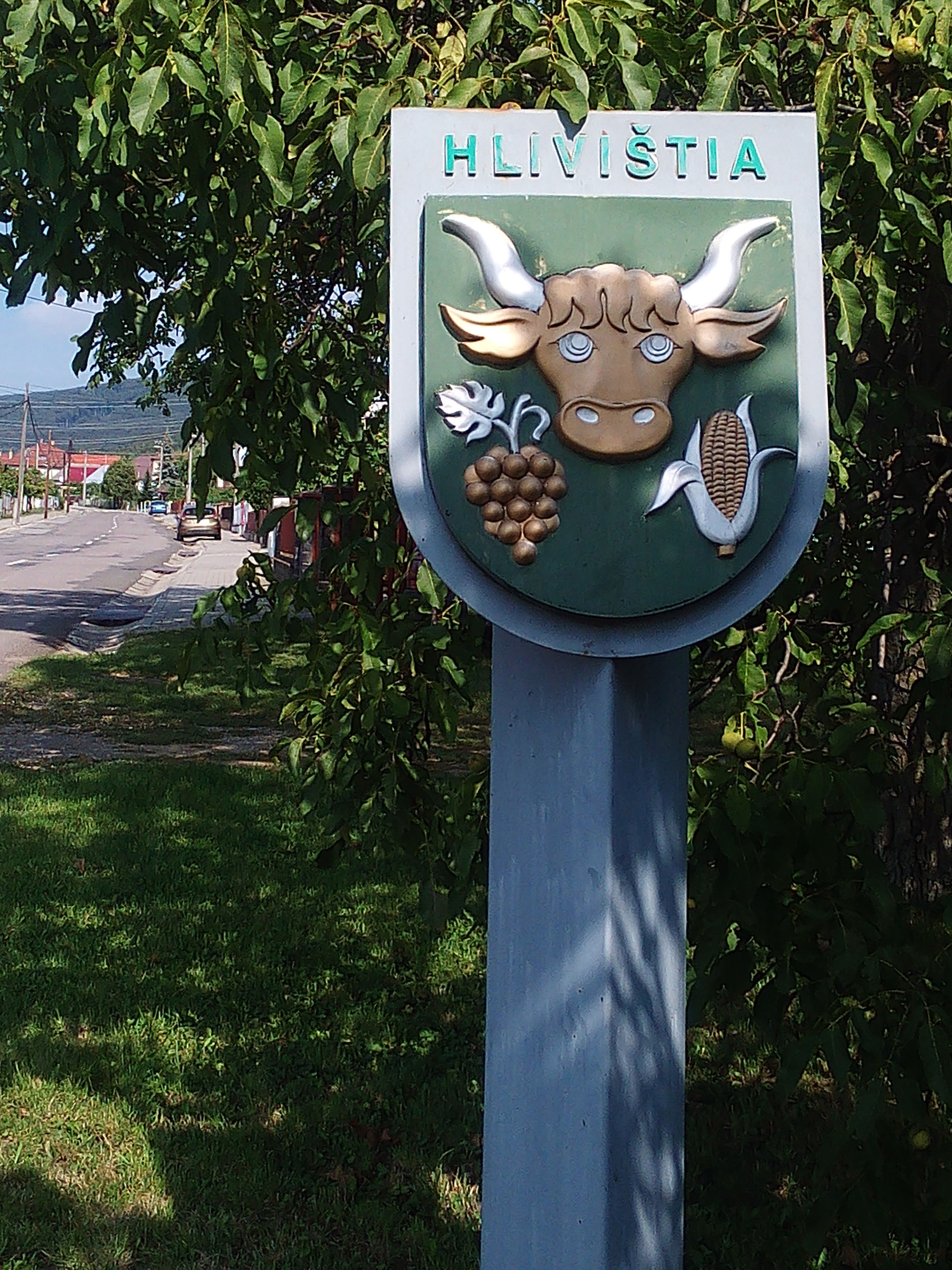 A guide board at the entrance to the village